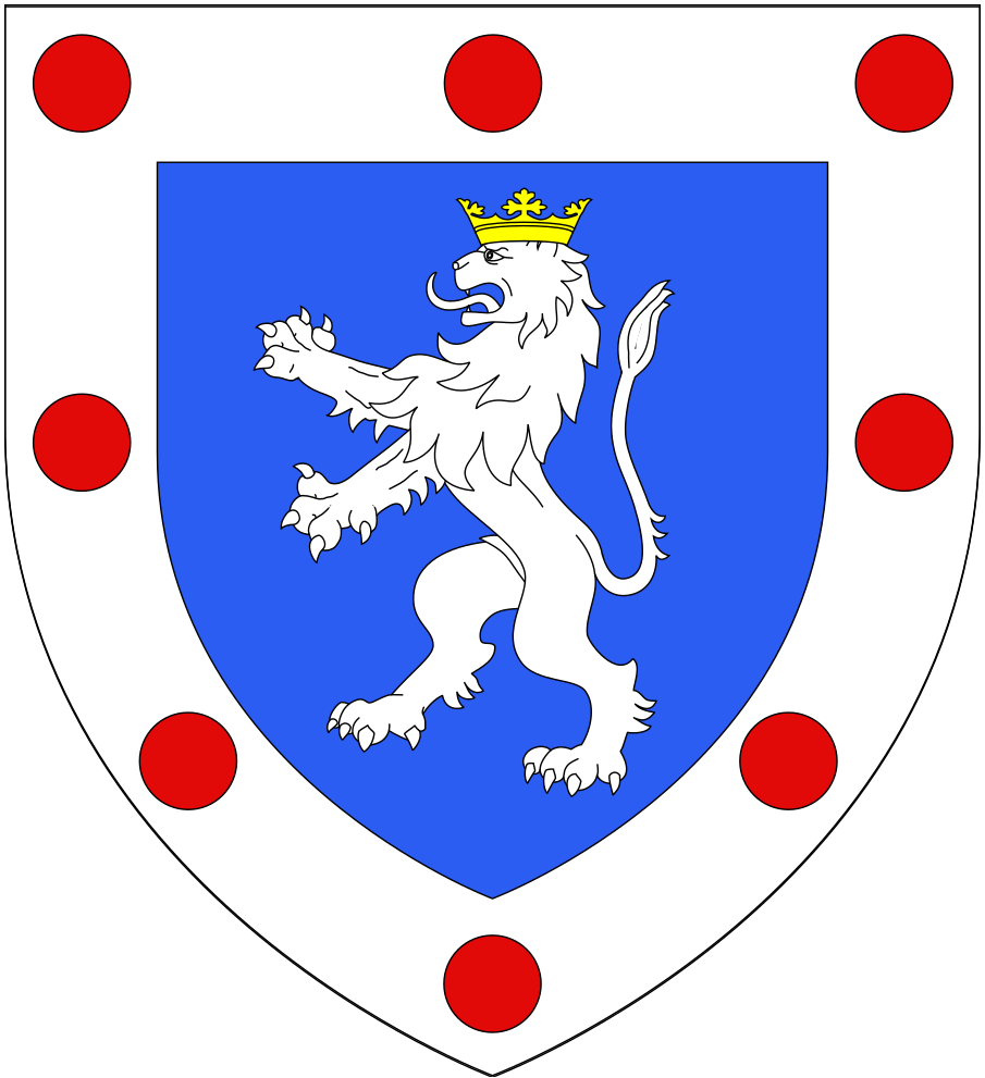 Arms of Henley, Baron Henley, Earl of Northington, Baron Northington: Azure, a lion rampant argent ducally crowned or a bordure of the second charged with eight torteaux